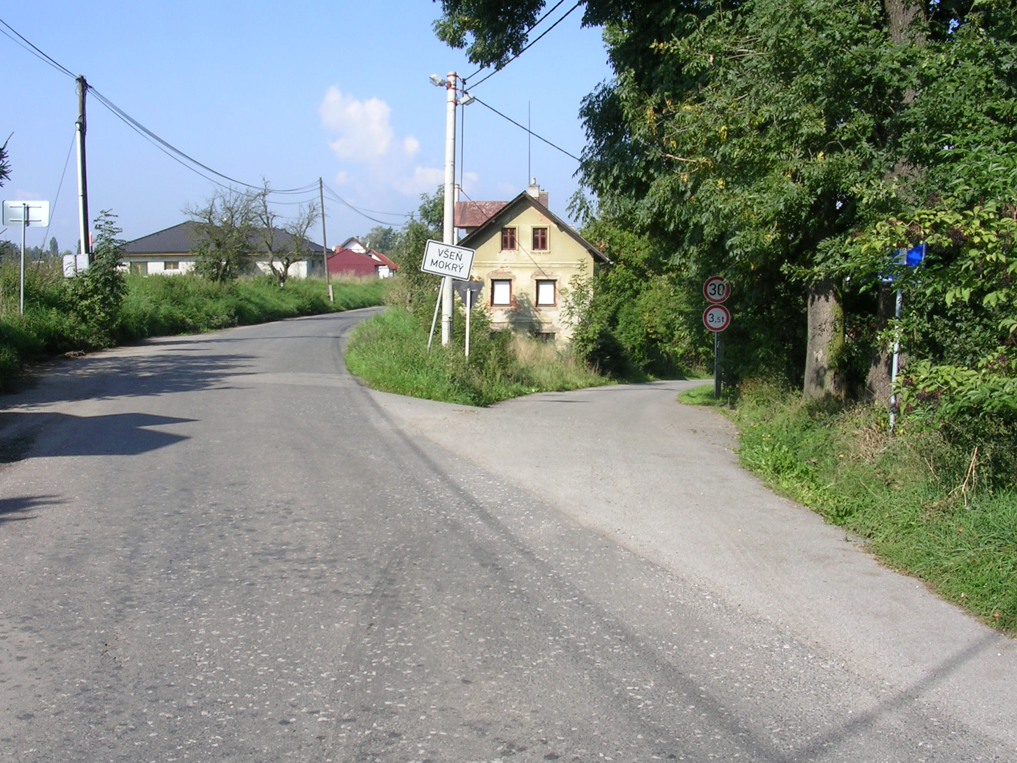 Všeň-Mokrý, Semily District, Liberec Region, the Czech Republic. The house No 14. - Google Maps - Google Earth